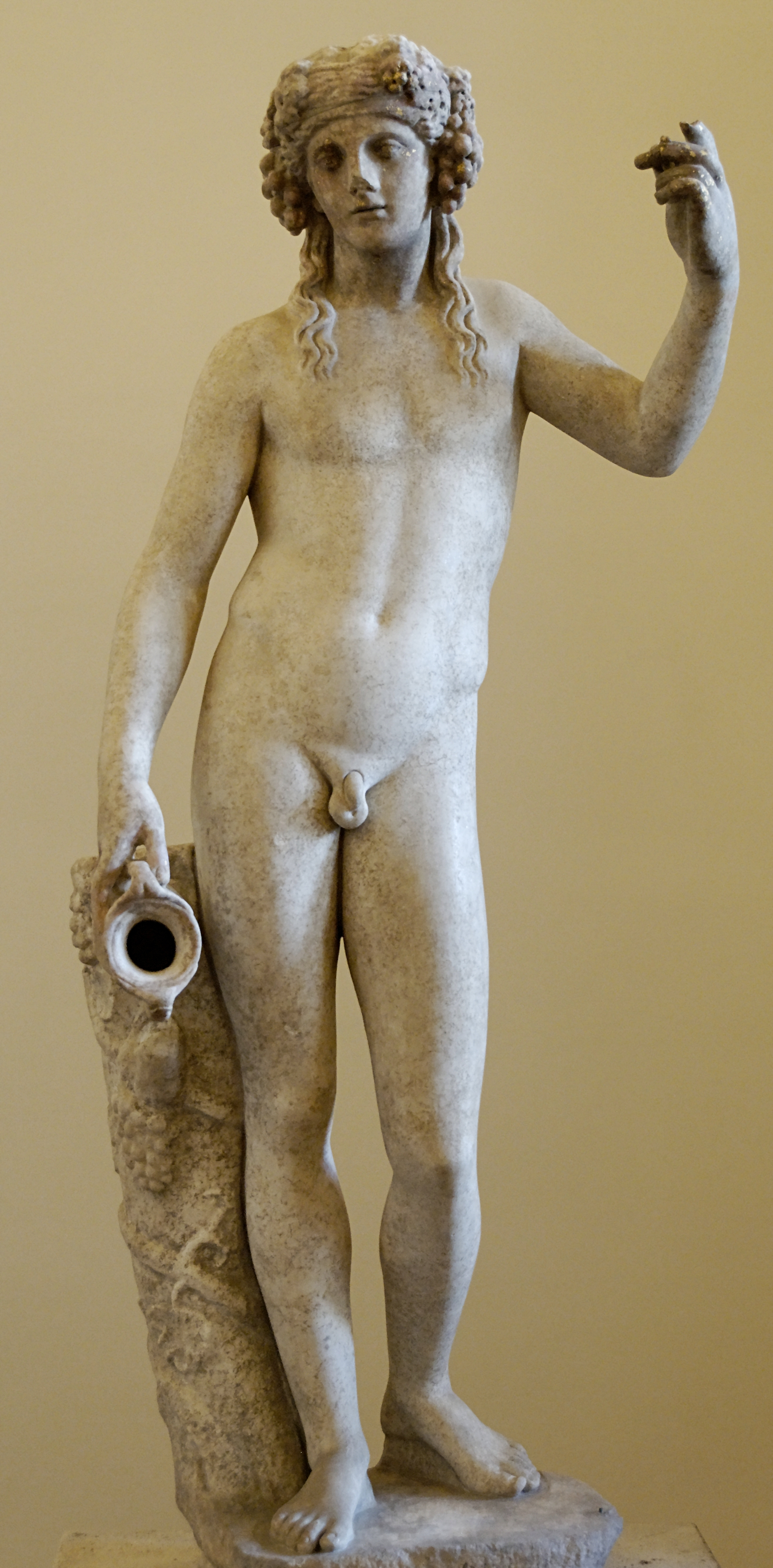 Young Dionysos wearing an ivy and vine crown and holding a thyrsus in the left hand (now lost) and a kantharos in the right hand. Roman artwork. From the sanctuary on the Janiculum Hill.